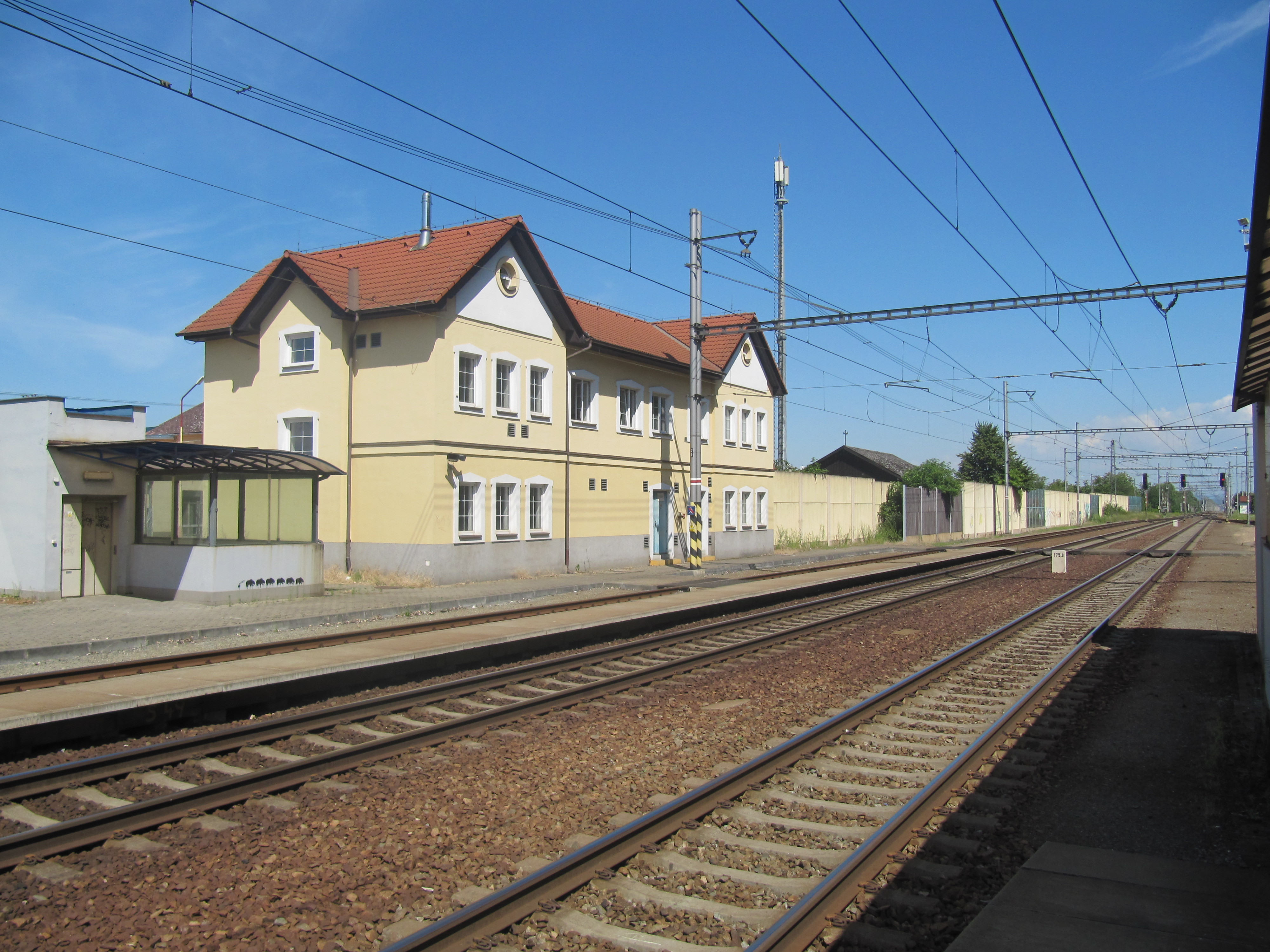 Říkovice, Přerov District, Czech Republic. Train station.